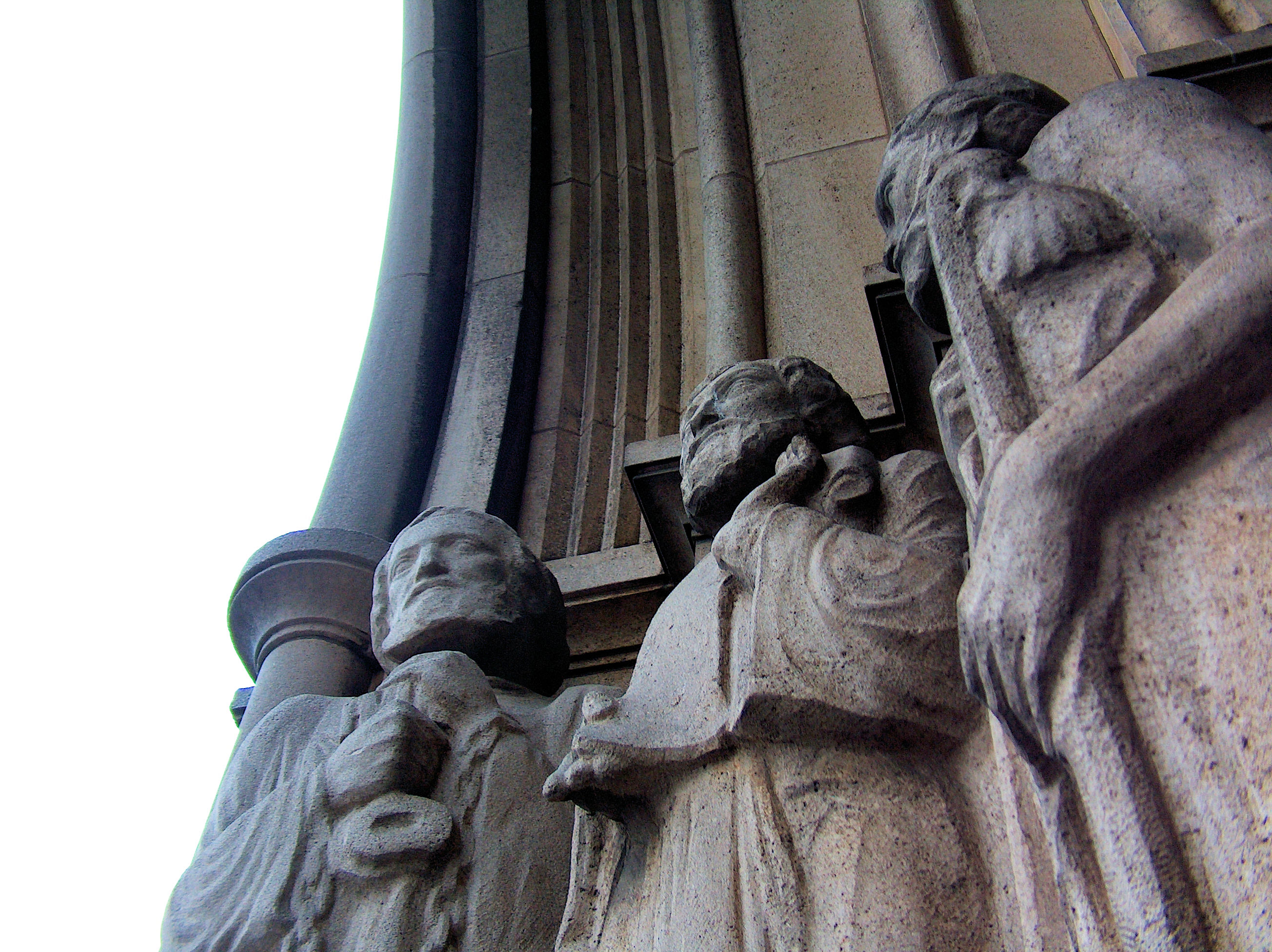 The saints of Brussels